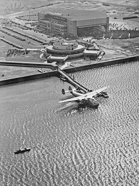 SI Neg. 2004-41701. Date: na...One-half right front aerial view of Pan American Airways Boeing Model B-314 'Yankee Clipper' (r/n NC18603; c/n 1990) at anchor at the LaGuardia Marine Air Terminal, New York, NY, circa 1940...Credit: Hans Groenhoff (Smithsonian Institution)